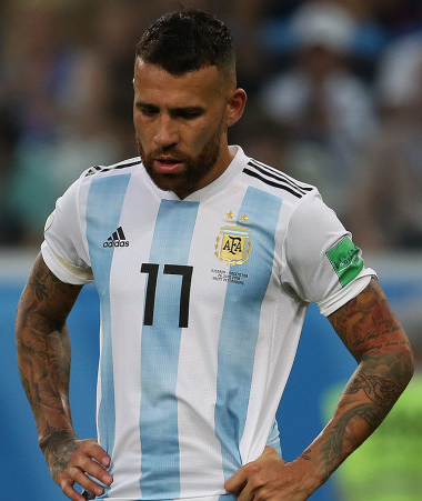 Nicolás Otamendi in 2018 world cup